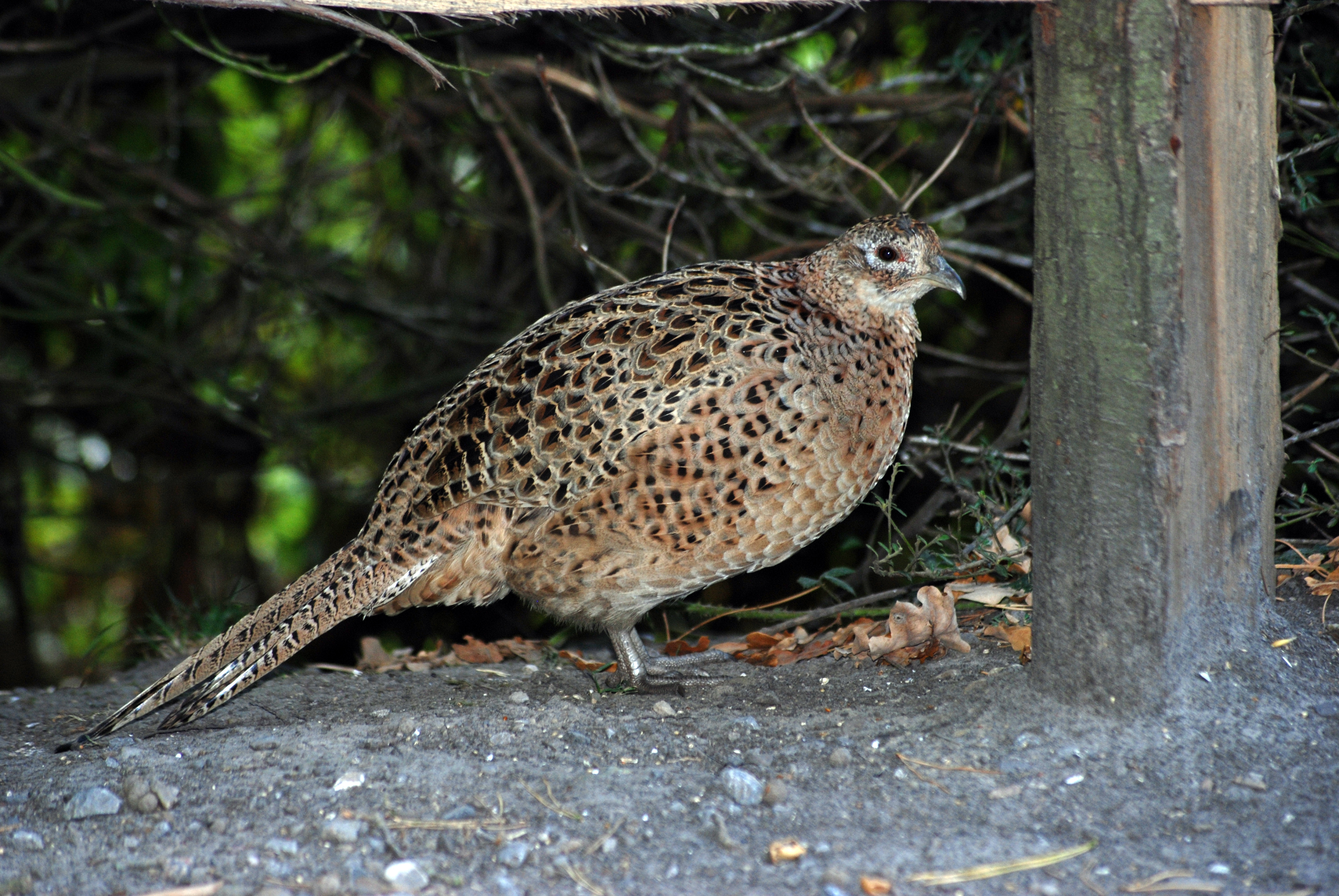 Wakehurst Place,Oct 2009